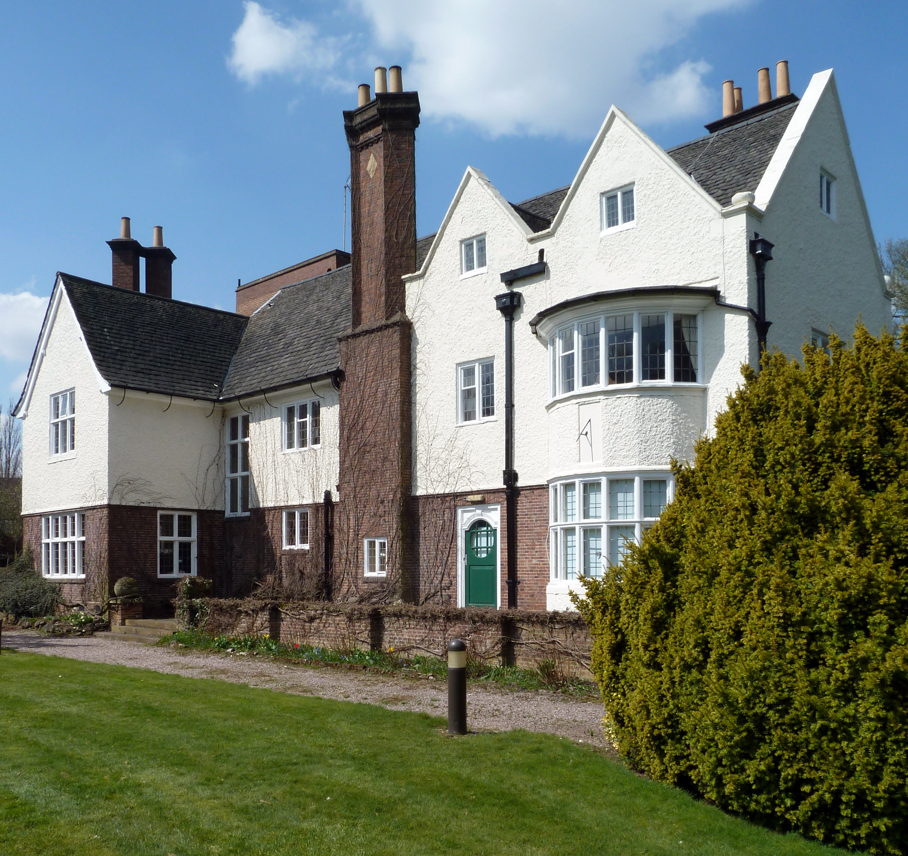 Garth House in Edgbaston, Birmingham. A Grade II* listed Arts and Crafts house designed by William Bidlake for Ralph Heaton and built in 1901